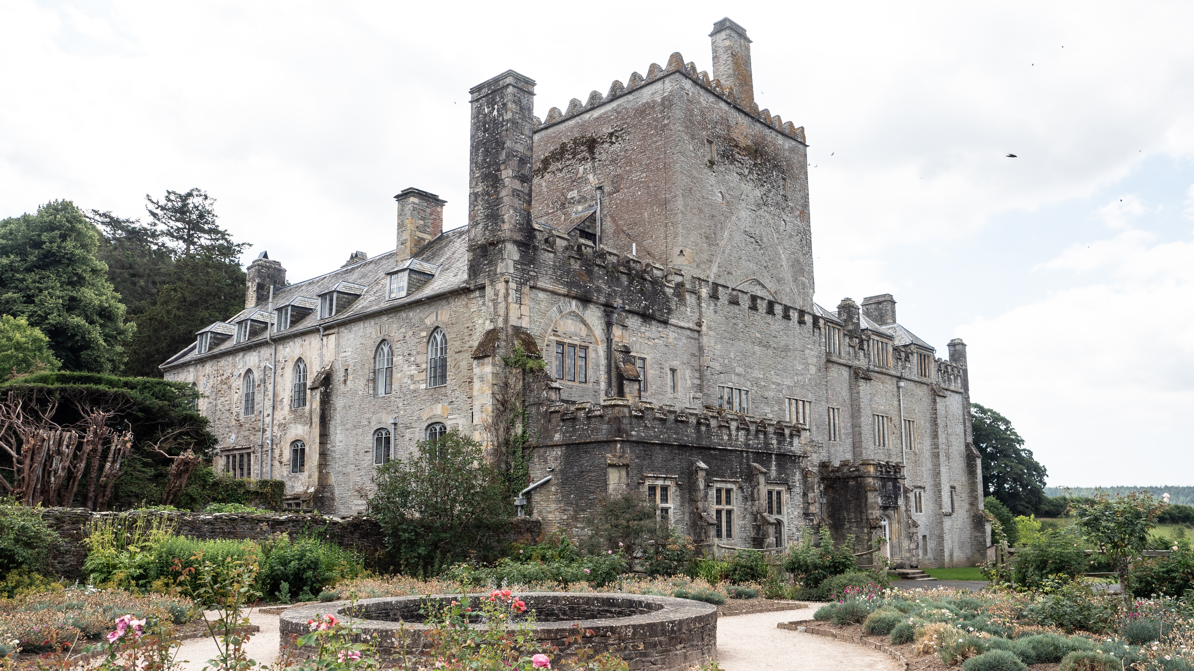 Buckland Abbey in Buckland Monarchorum close to Plymouth, Backside